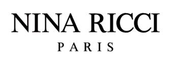 Logo for Nina Ricci